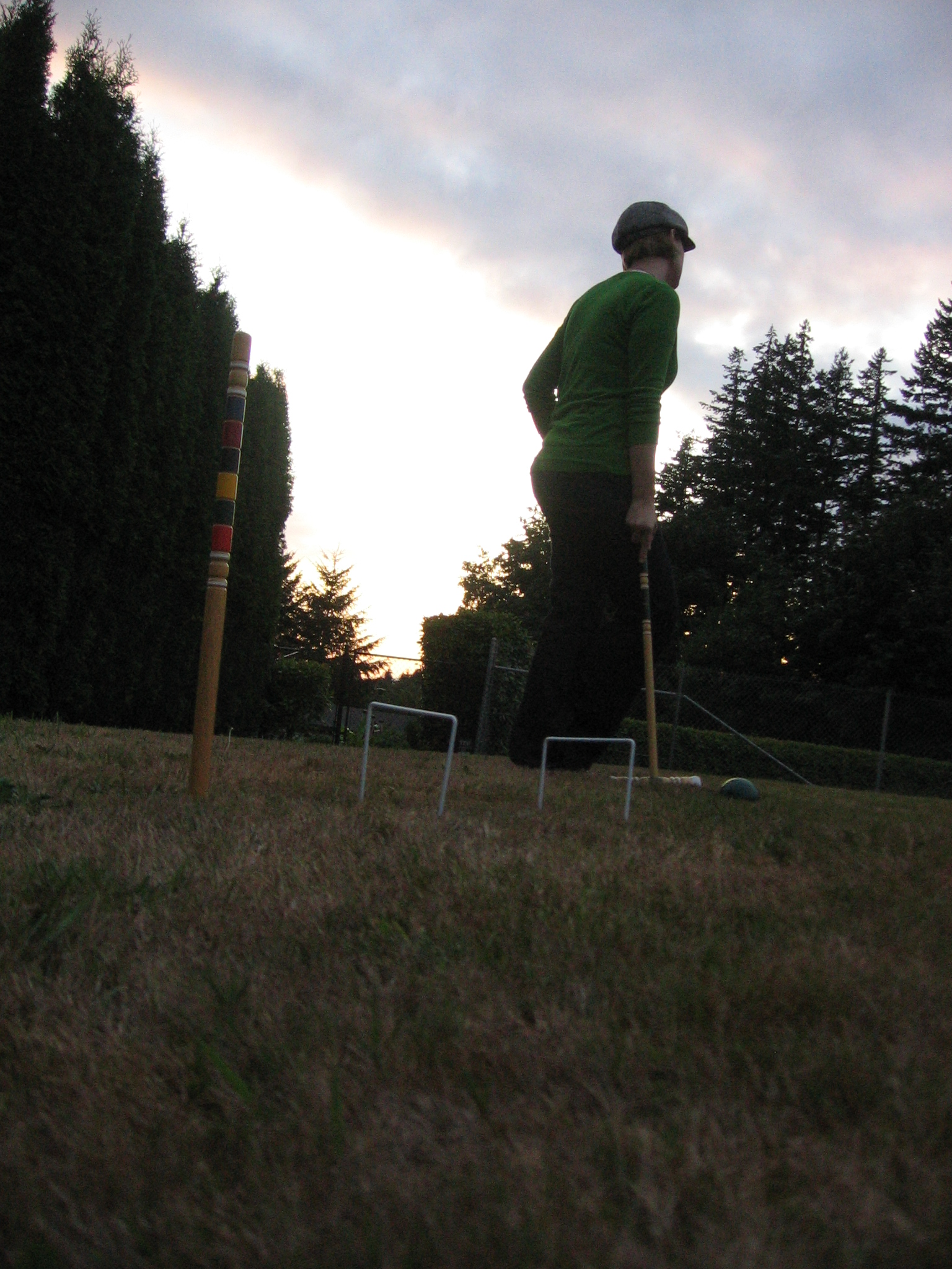 An American game of croquet at twilight.